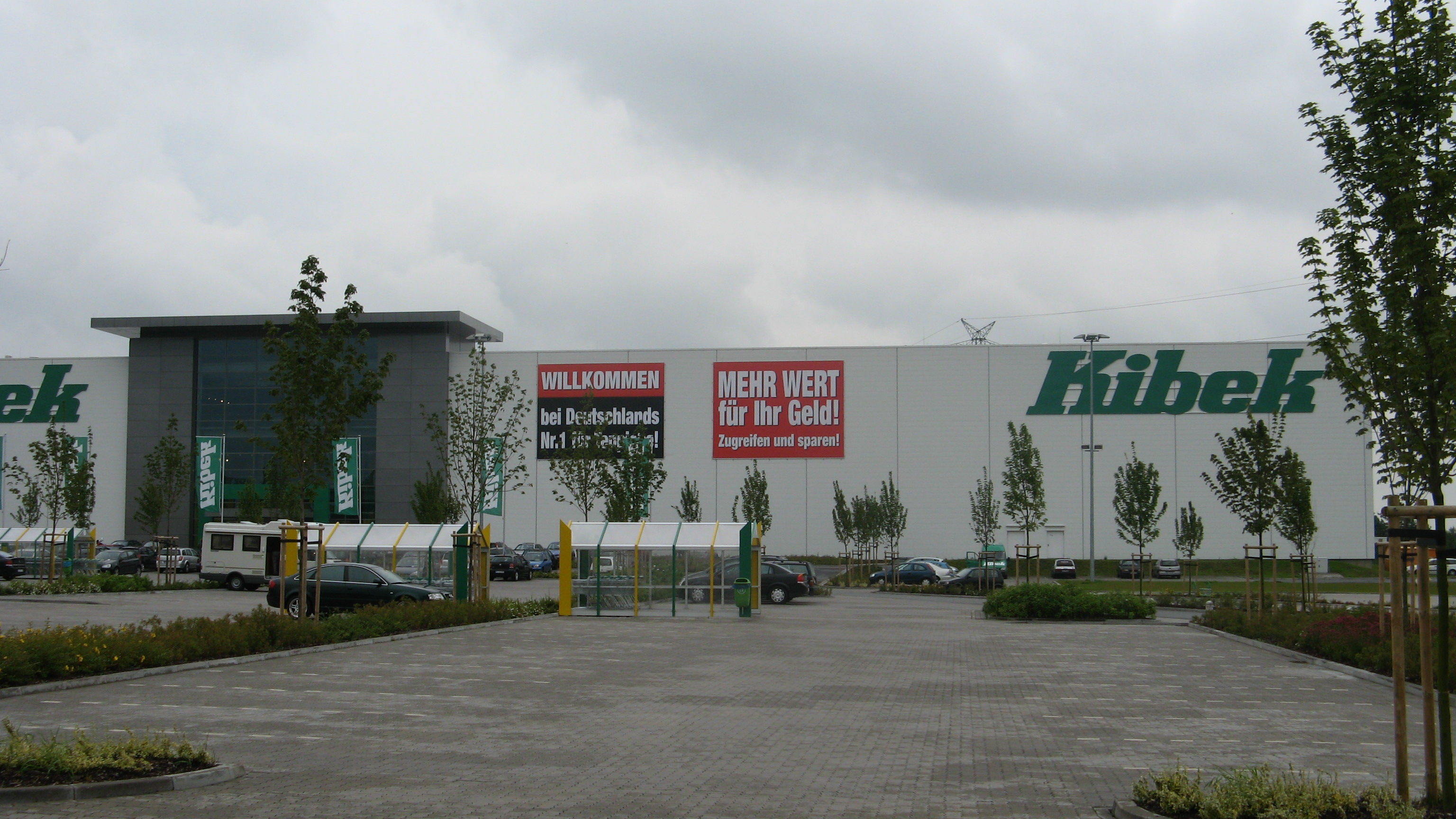 new buidling of "Teppich Kibek" in Elmshorn